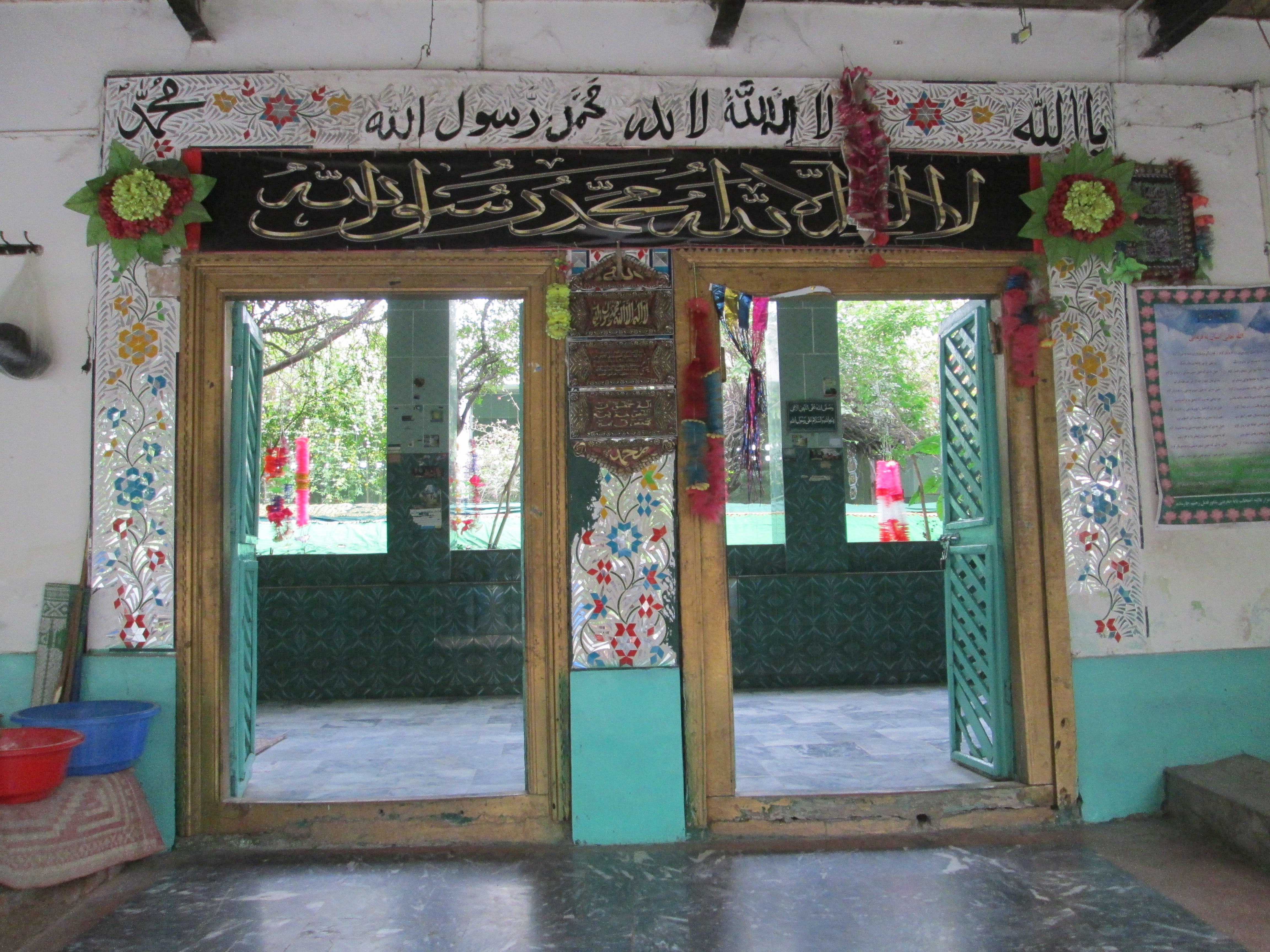 Sinan Bin Salamah bin Mohbik grave entrance gates